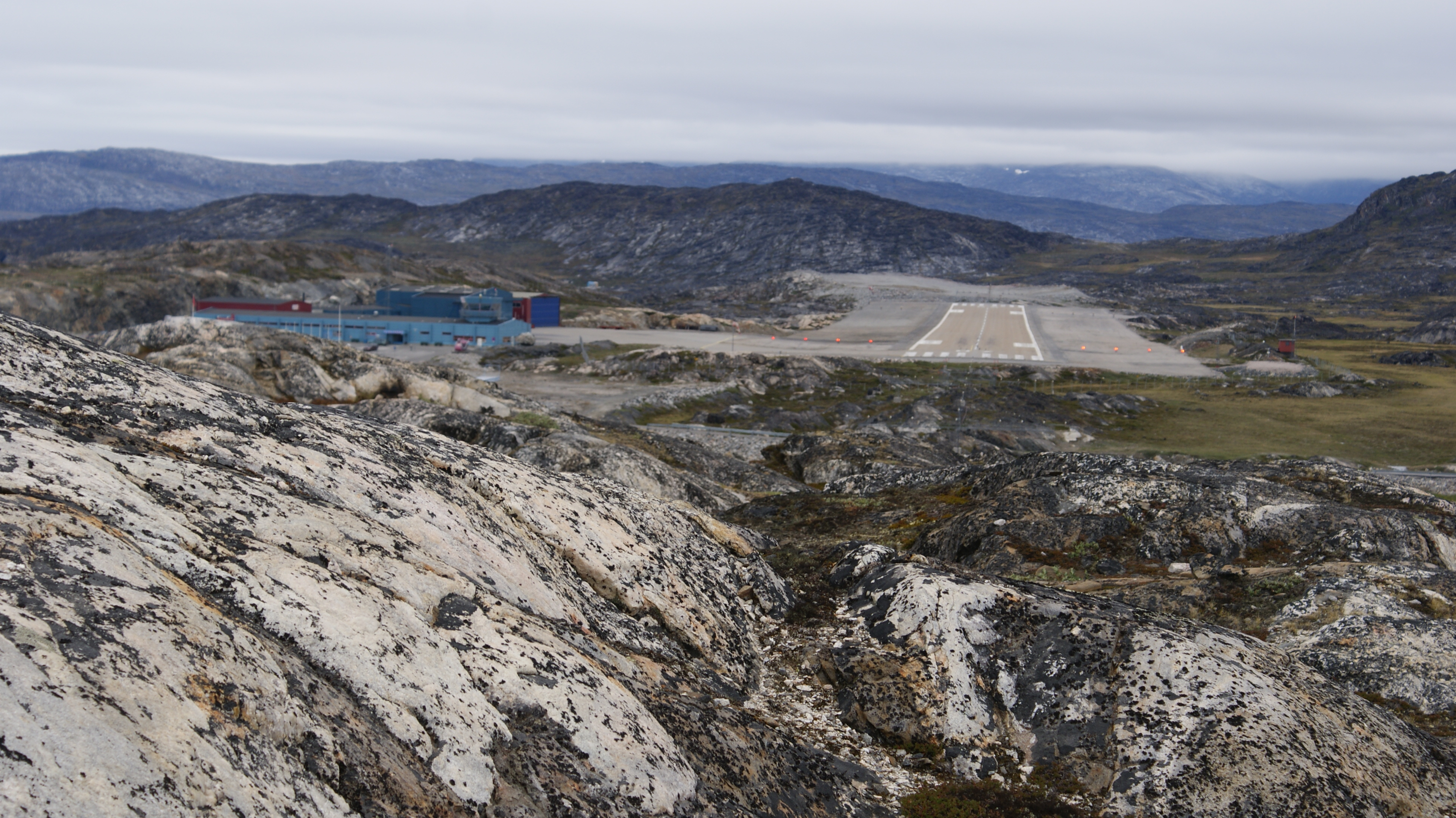 Ilulissat Airport, Greenland − runway seen from the south